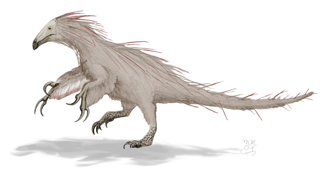 Life restoration of the therizinosaur Beipiaosaurus inexpectus, based on skeletal reconstruction by Jaime Headden and feathers as preserved in the holotype and referred specimens.